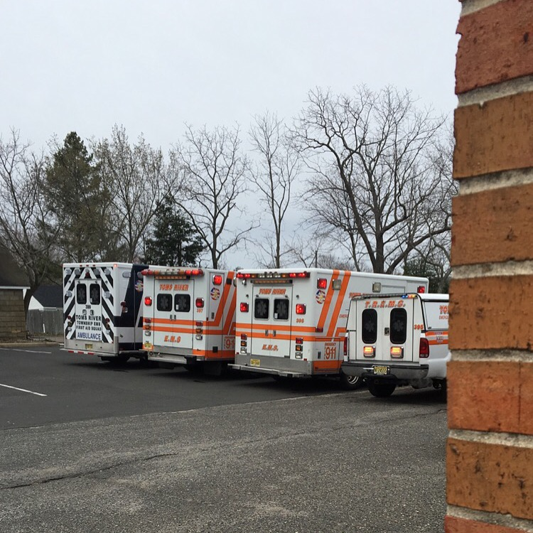 Ambulances and a response vehicle (used for special jobs) lined up outside a first aid squad in New Jersey